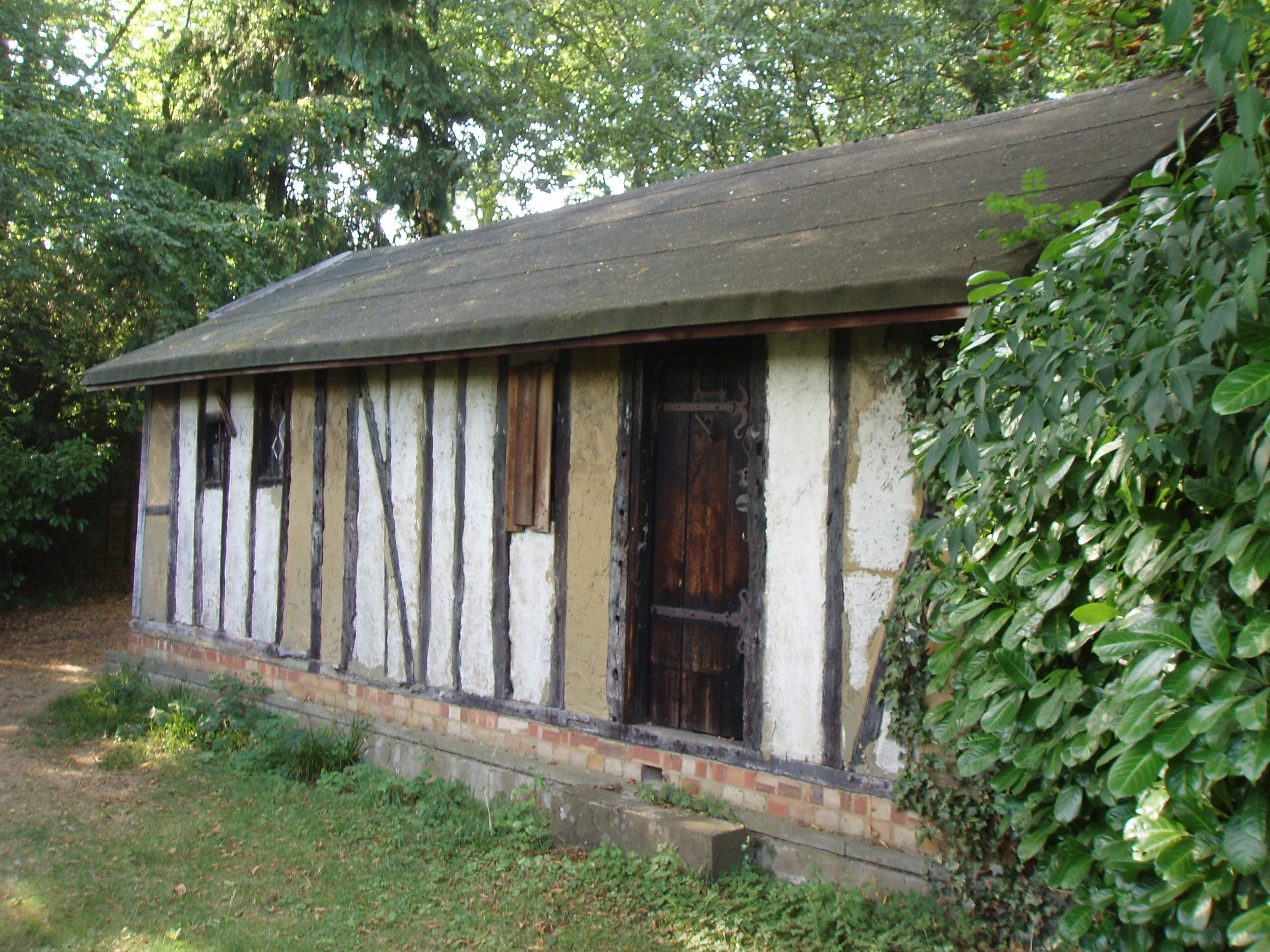 The Witches Cottage, a hut in Bricket Wood, England, used by Gerald Gardner and his Bricket Wood Coven to perform rituals during the mid-20th century.